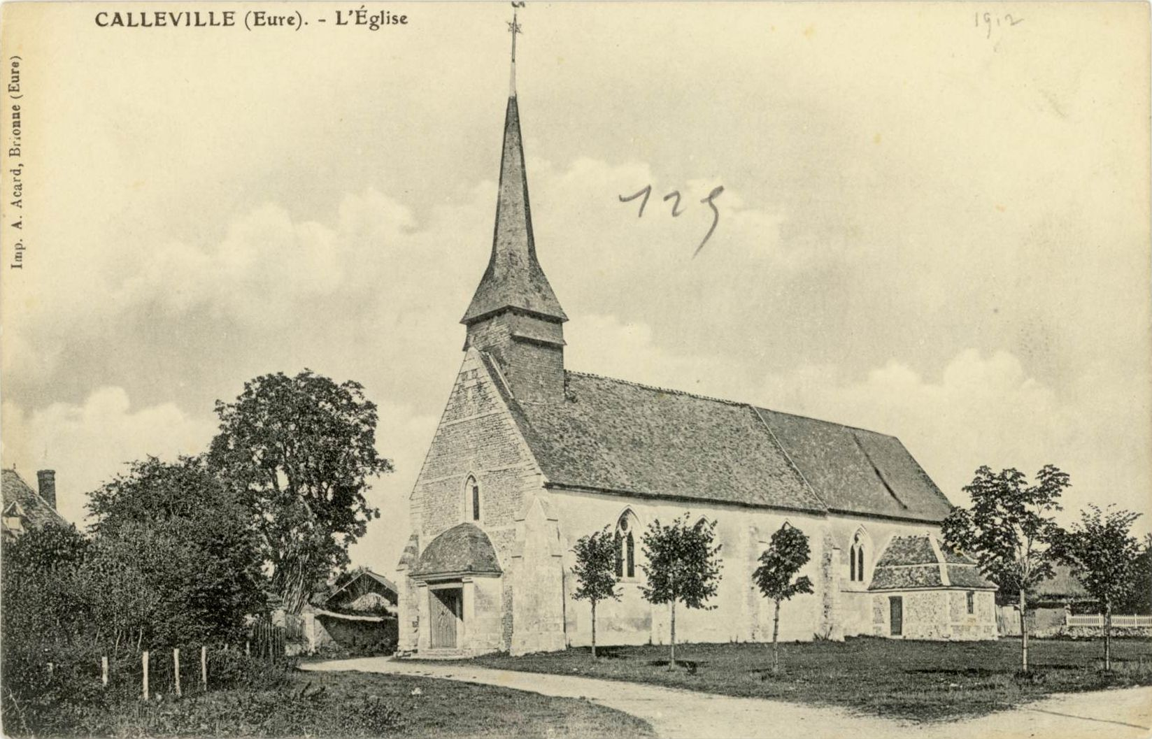 The church Sainte Clotilde in Calleville (Eure, France). The real patron saint is Saint Aignan.